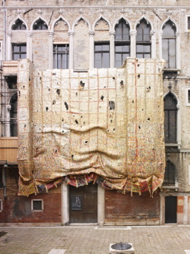 View Palazzo Fortuny Artempo exhibition